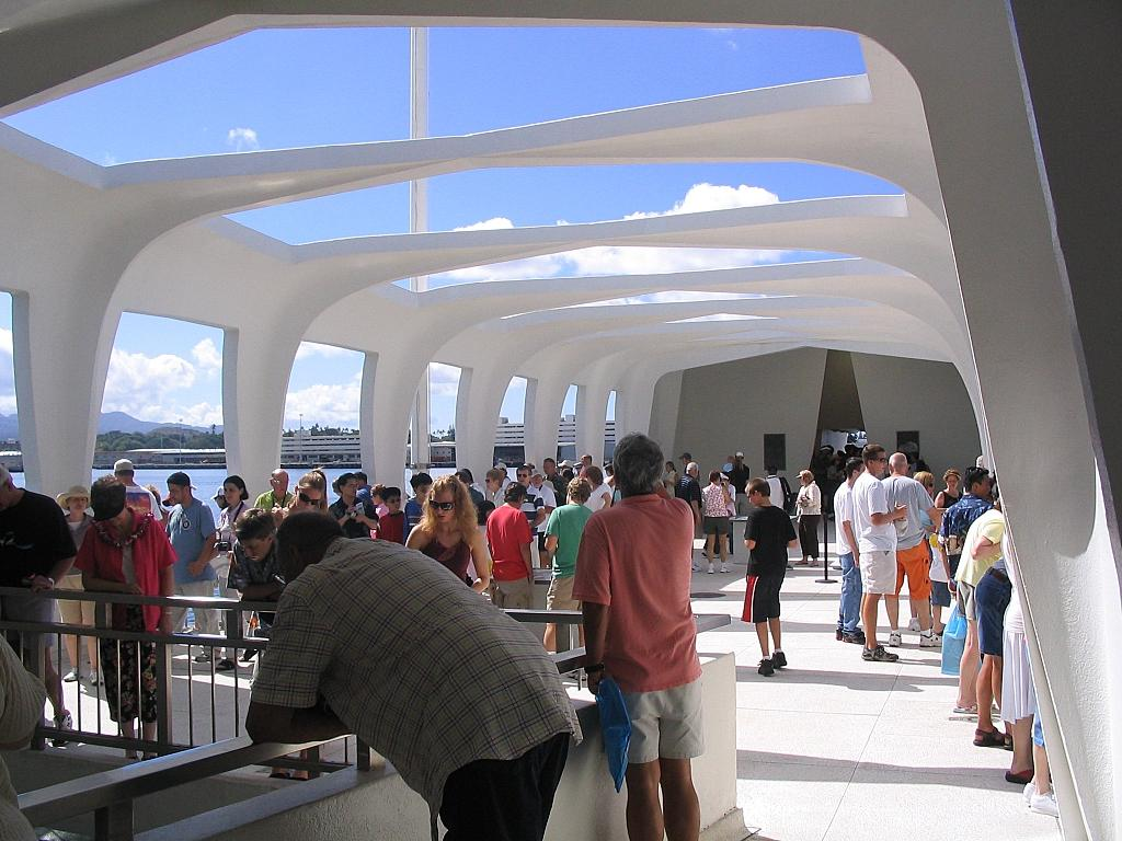 Visitors at the USS Arizona Memorial at Pearl Harbor, Oahu, Hawaii.